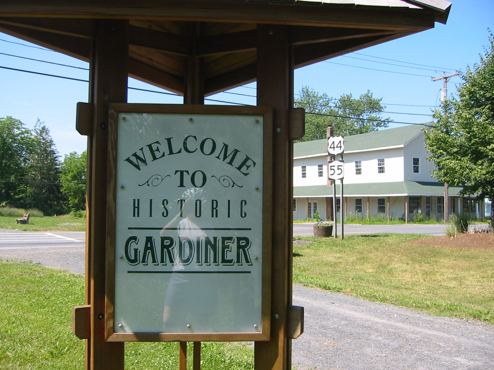 I took this picture and grant Wikipedia full permission to use it.